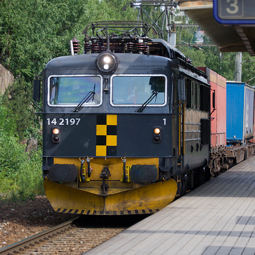 Picture is taken by Anders Sørby.